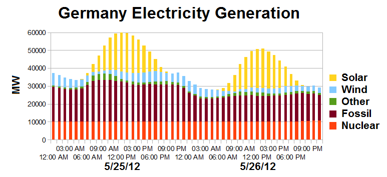 Germany electricity generation on May 25 and May 26, 2012 - 22 GW of solar each day